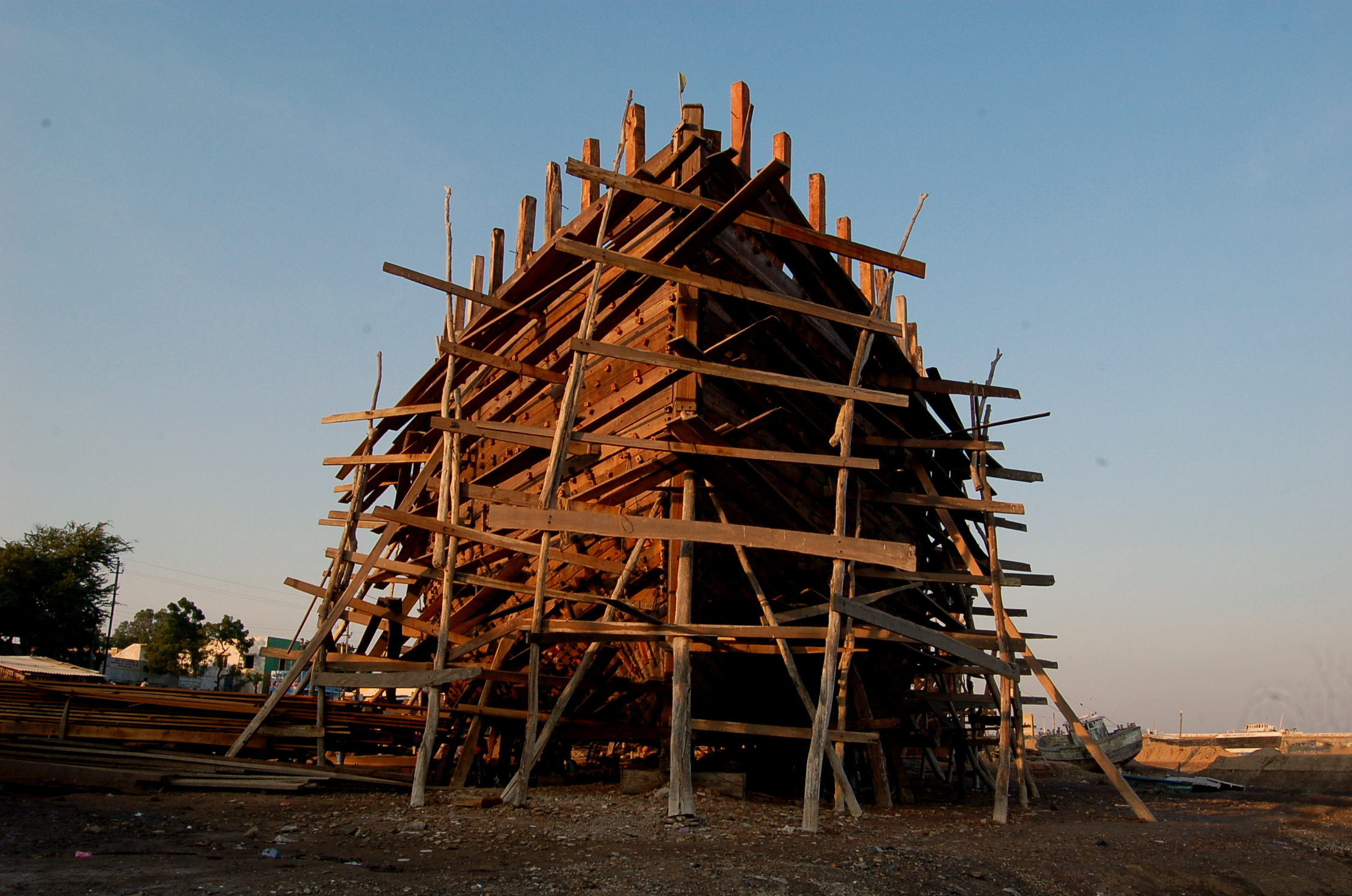 Ship Building Yard at Mandvi, Gujrat, India